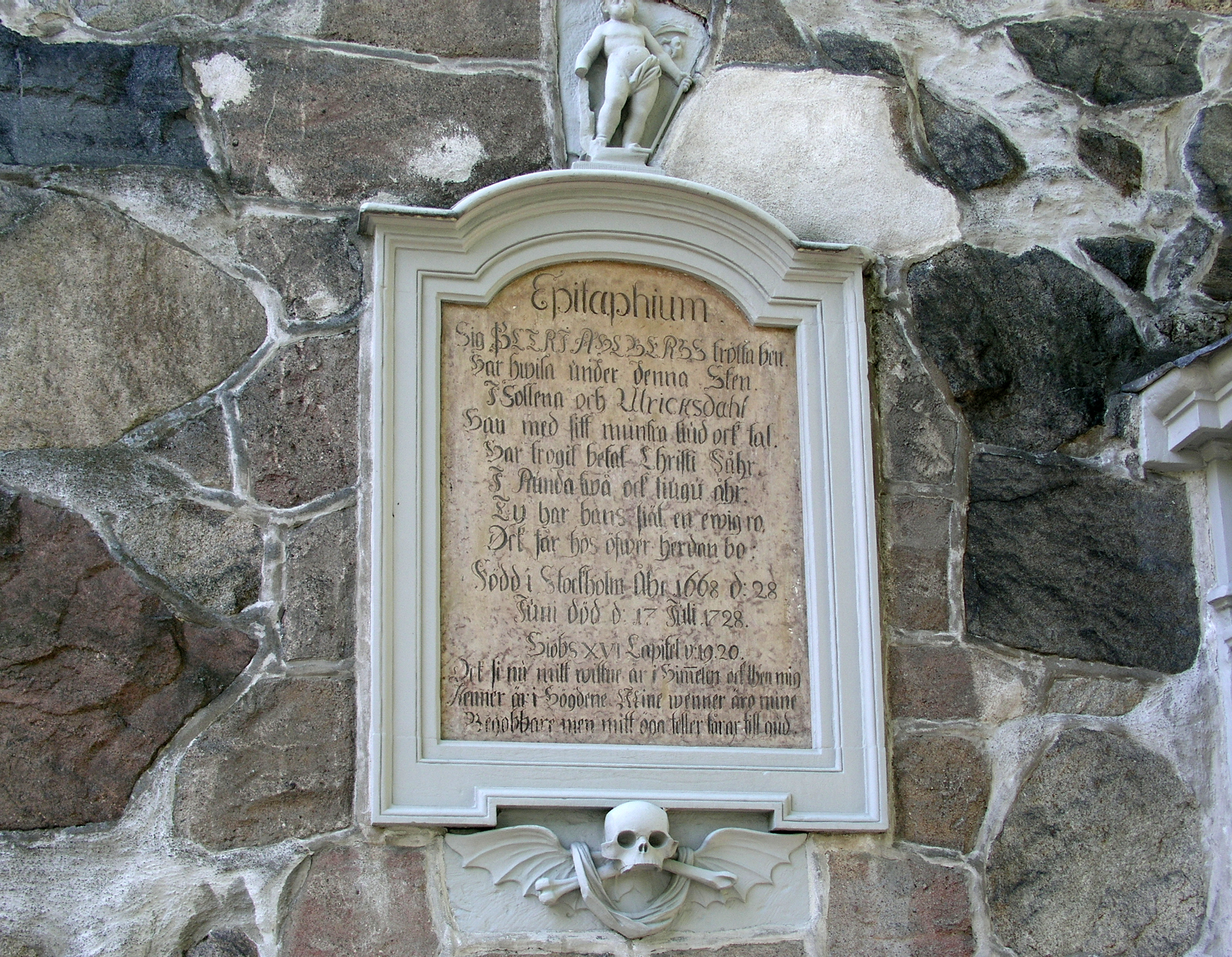 Solna Kyrka / Solna Church. Stockholms stift, Solna kommun.